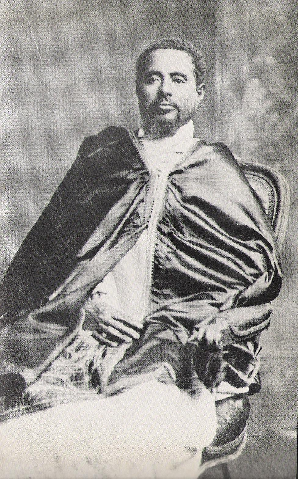 Ras Mekonnen in London - 1902